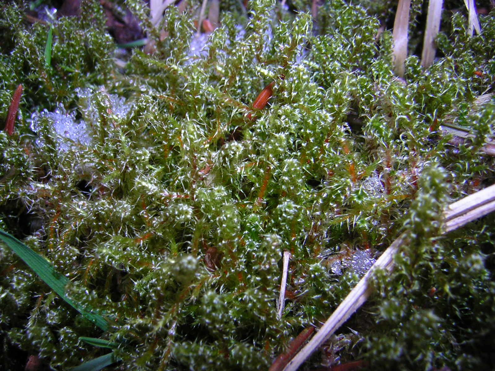 RHYTIDIADELPHUS SQUARROSUS (Hedw.) Warnst.